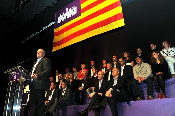 Fundational congress of El PI (congrés fundacional de El PI)